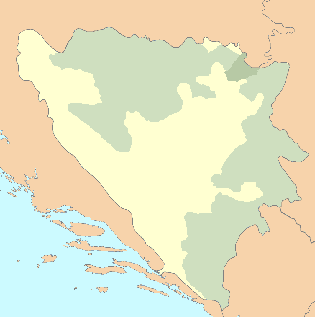 A blank map of Bosnia and Herzegovina; contact the author for help with modifications or add-ons